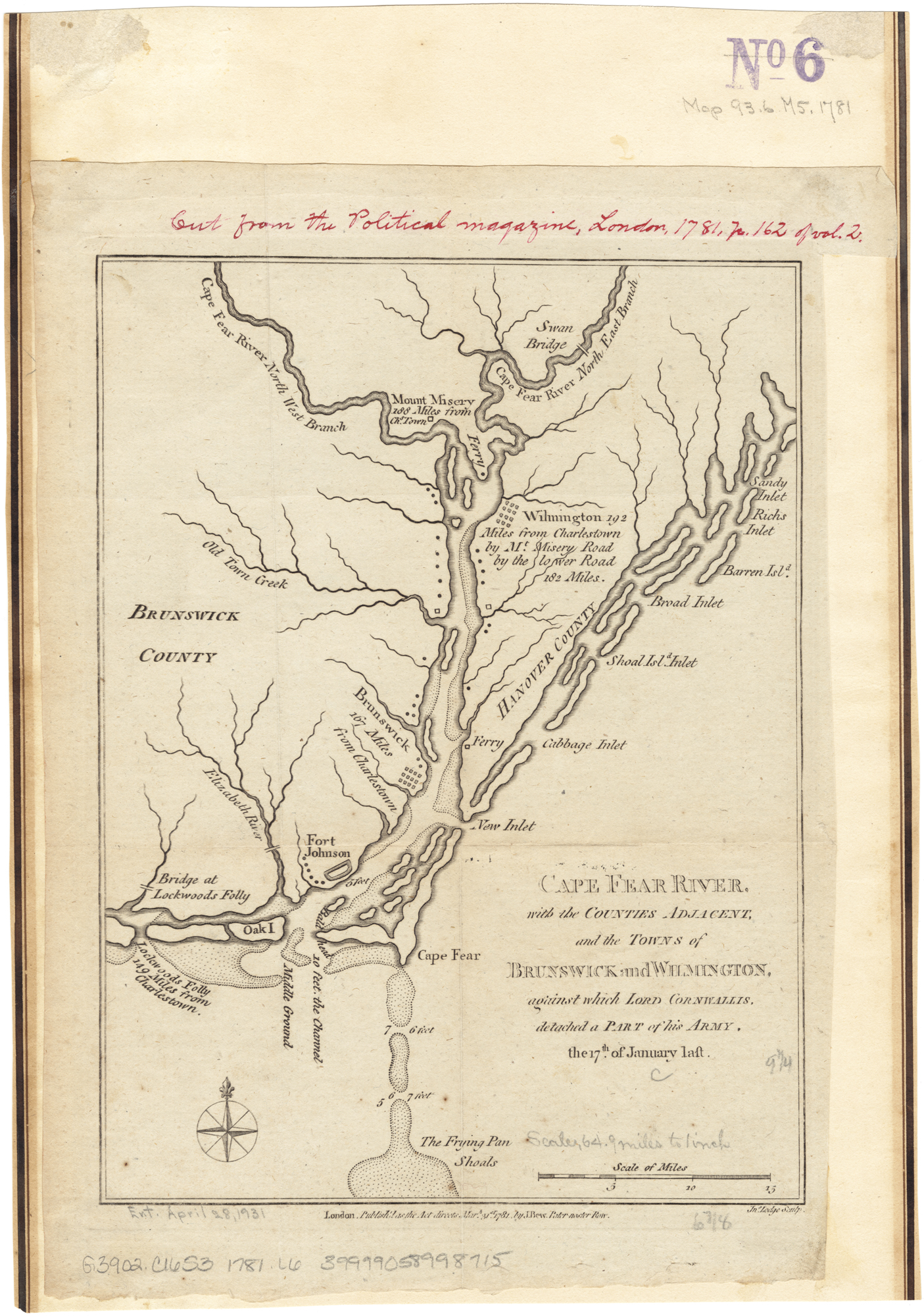 Zoom into this map at . Author: Lodge, John Publisher: J. Bew Date: 1781. Location: Cape Fear River (N.C.) Scale: Scale [ca. 1:410,000]. Call Number: G3902.C16S3 1781.L6